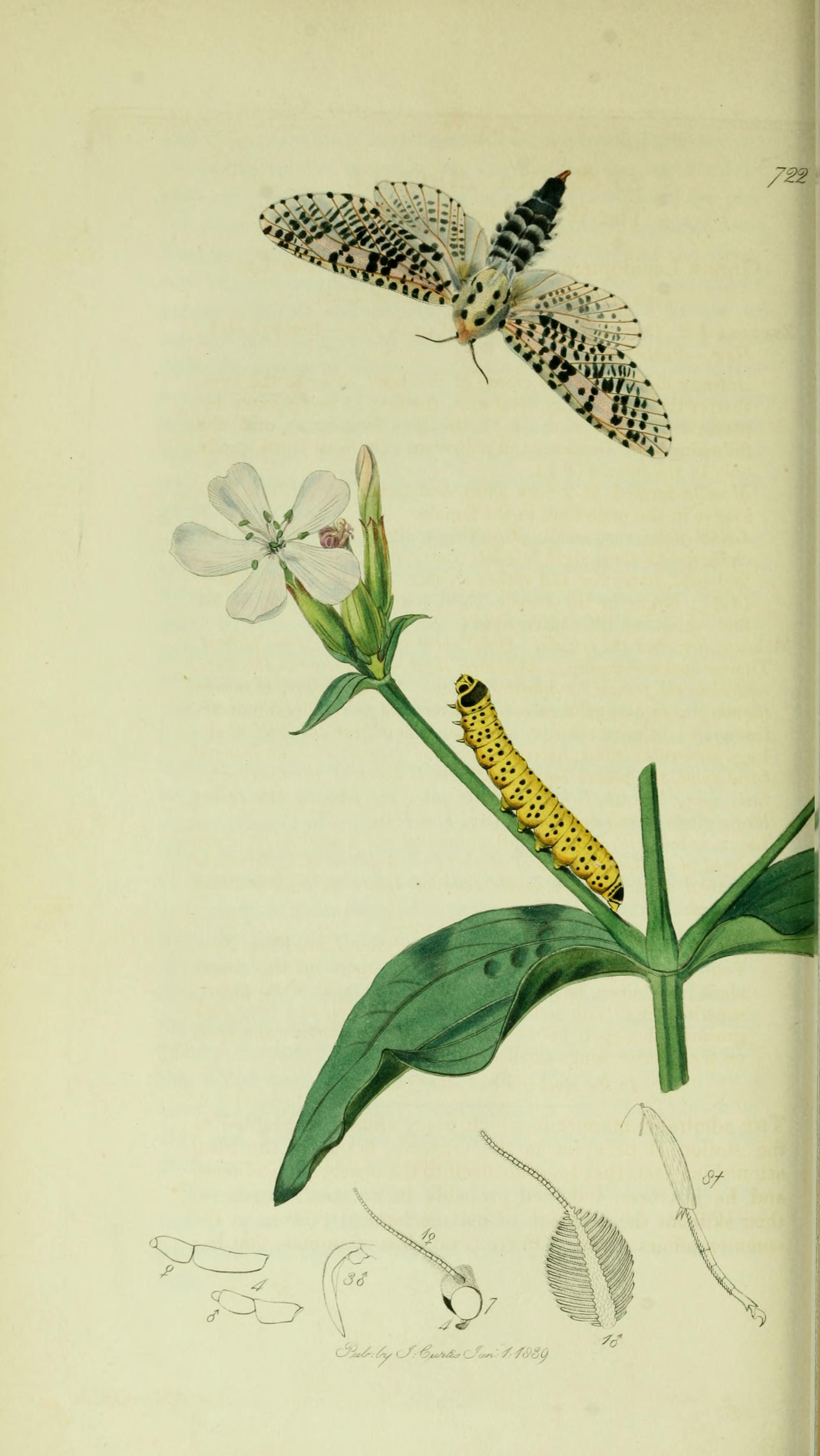 An illustration from British Entomology by John Curtis. Zeuzera aesculi or Zeuzera pyrina (Wood Leopard Moth).